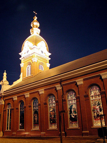 I took this photo when i was visiting my in-laws last